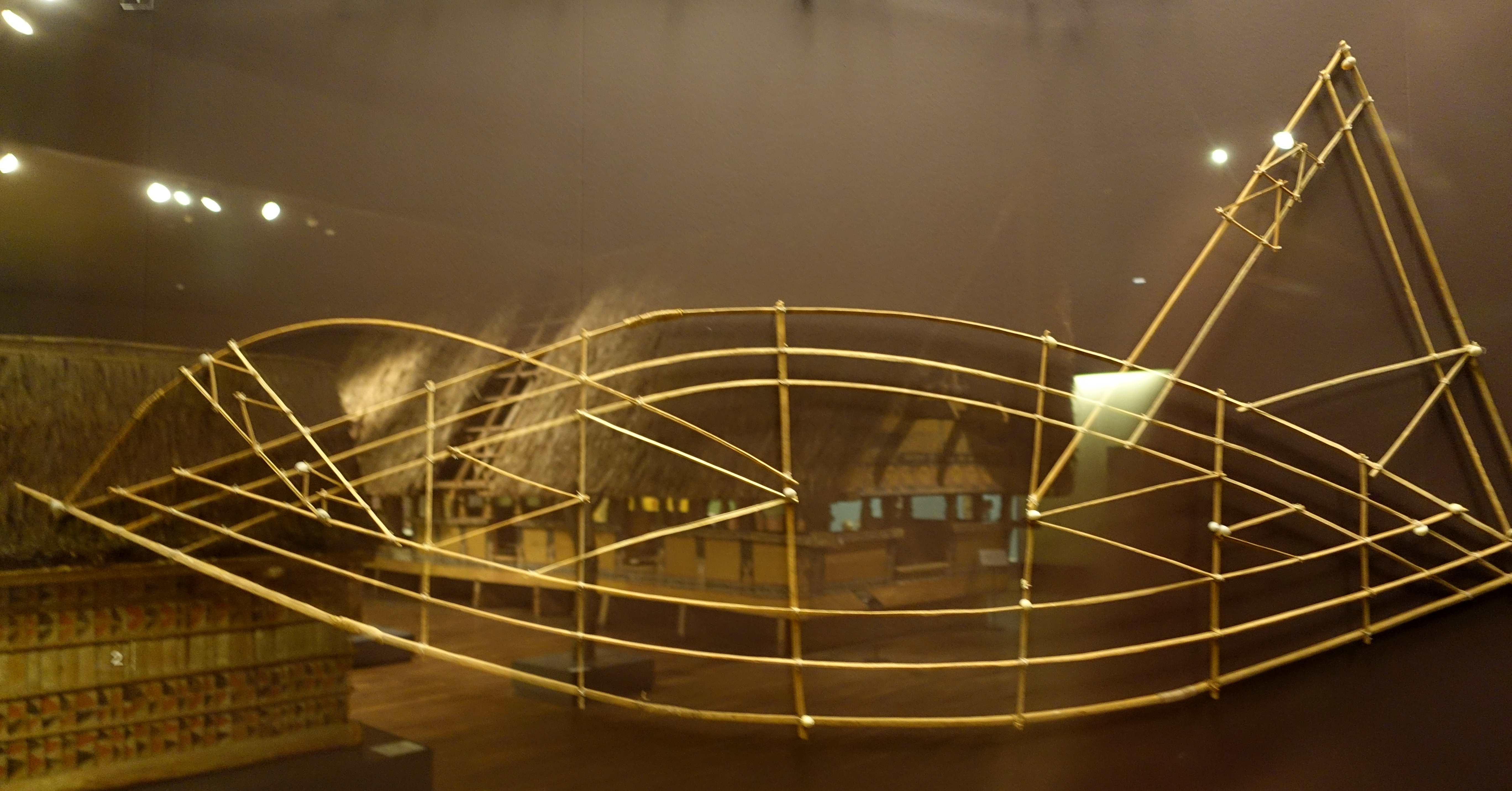 Exhibit in the Südseeabteilung - Ethnological Museum, Berlin, Germany.